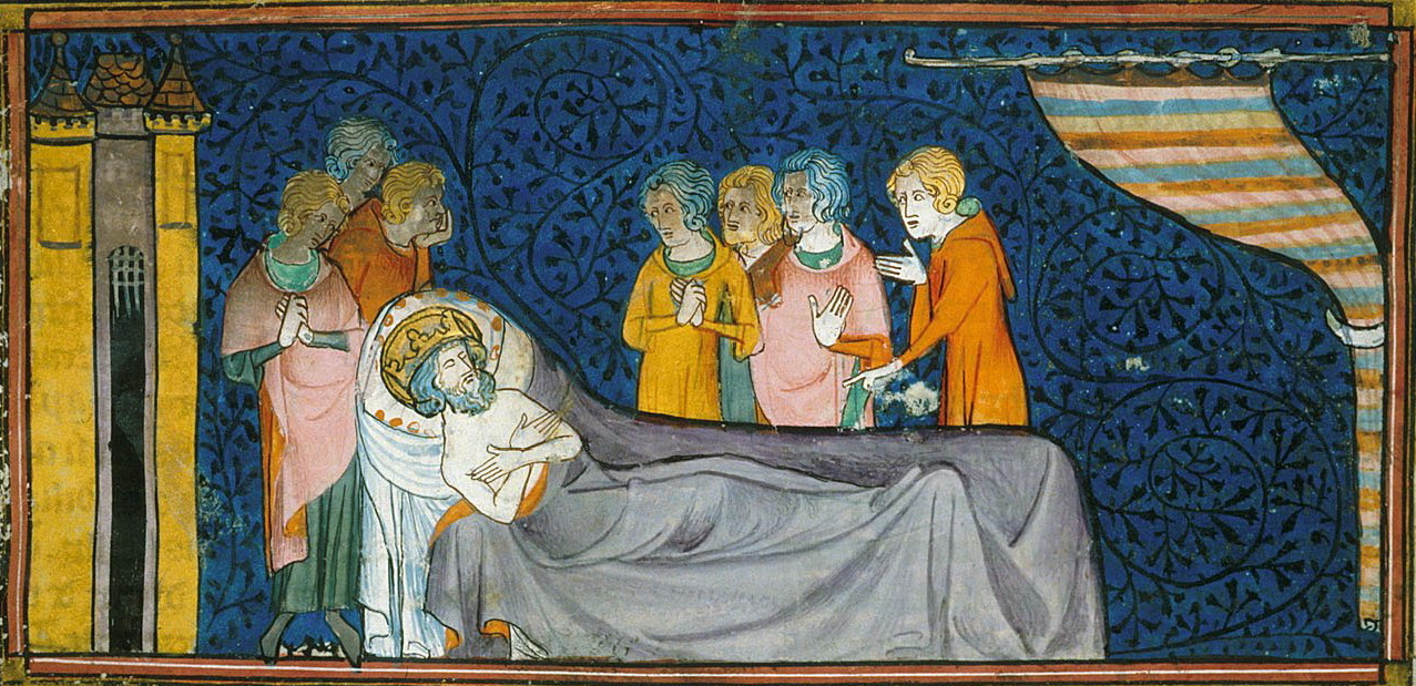 Eighth Crusade 1270: Louis IX of France (Saint Louis) on his deathbed. (British Library, Royal 16 G VI f. 444v)